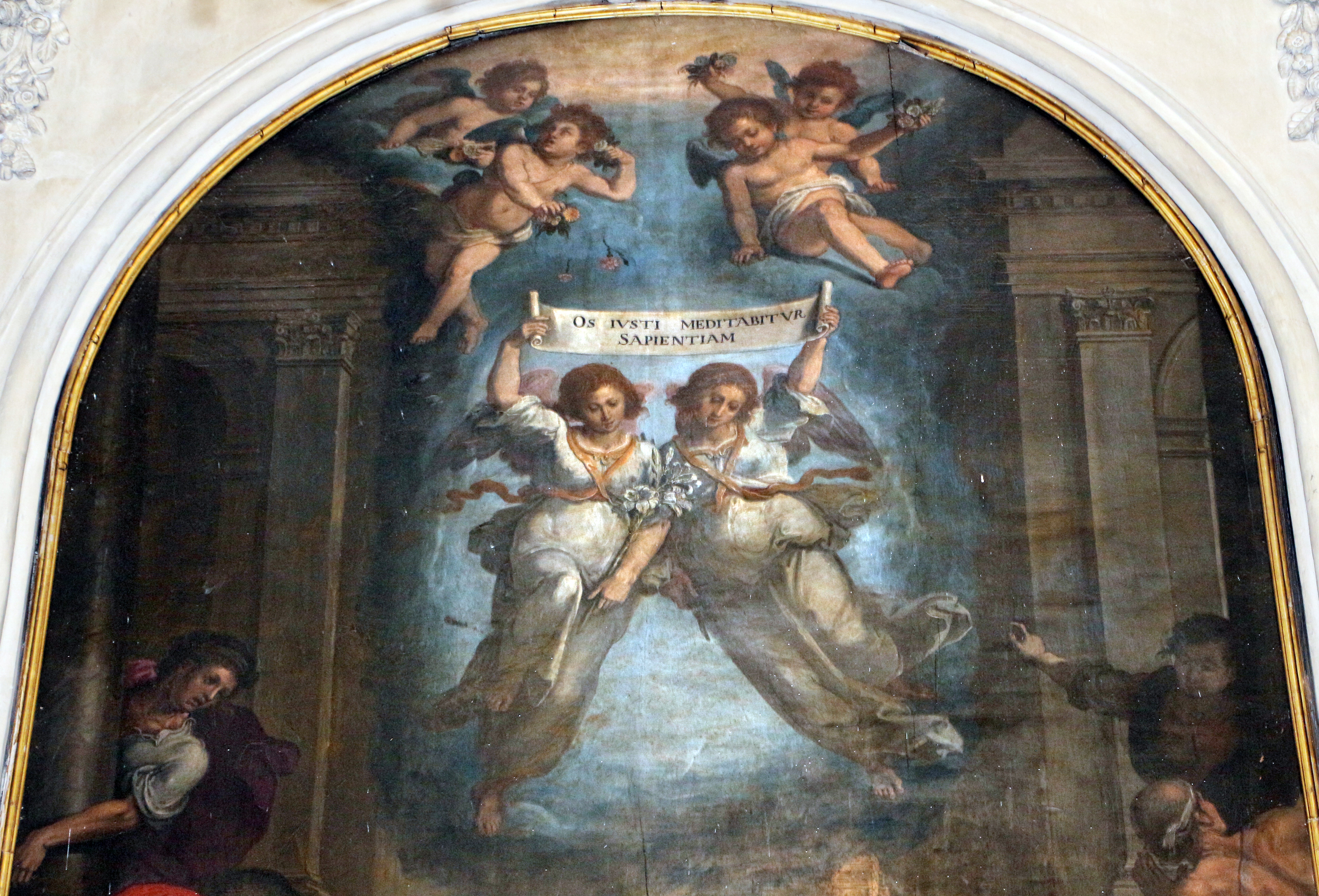 Santa Maria del Carmine (Florence) - Interior